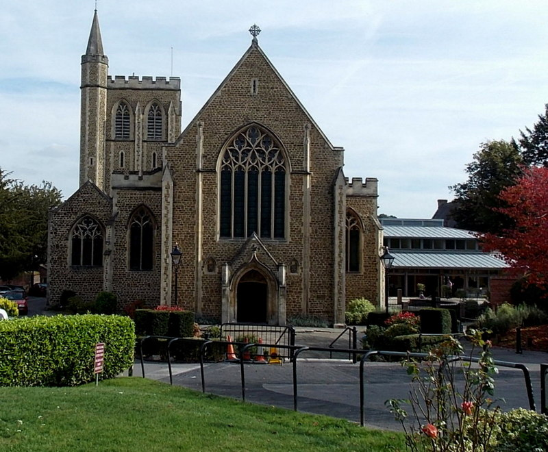 West side of St Peter's Catholic Church in Winchester